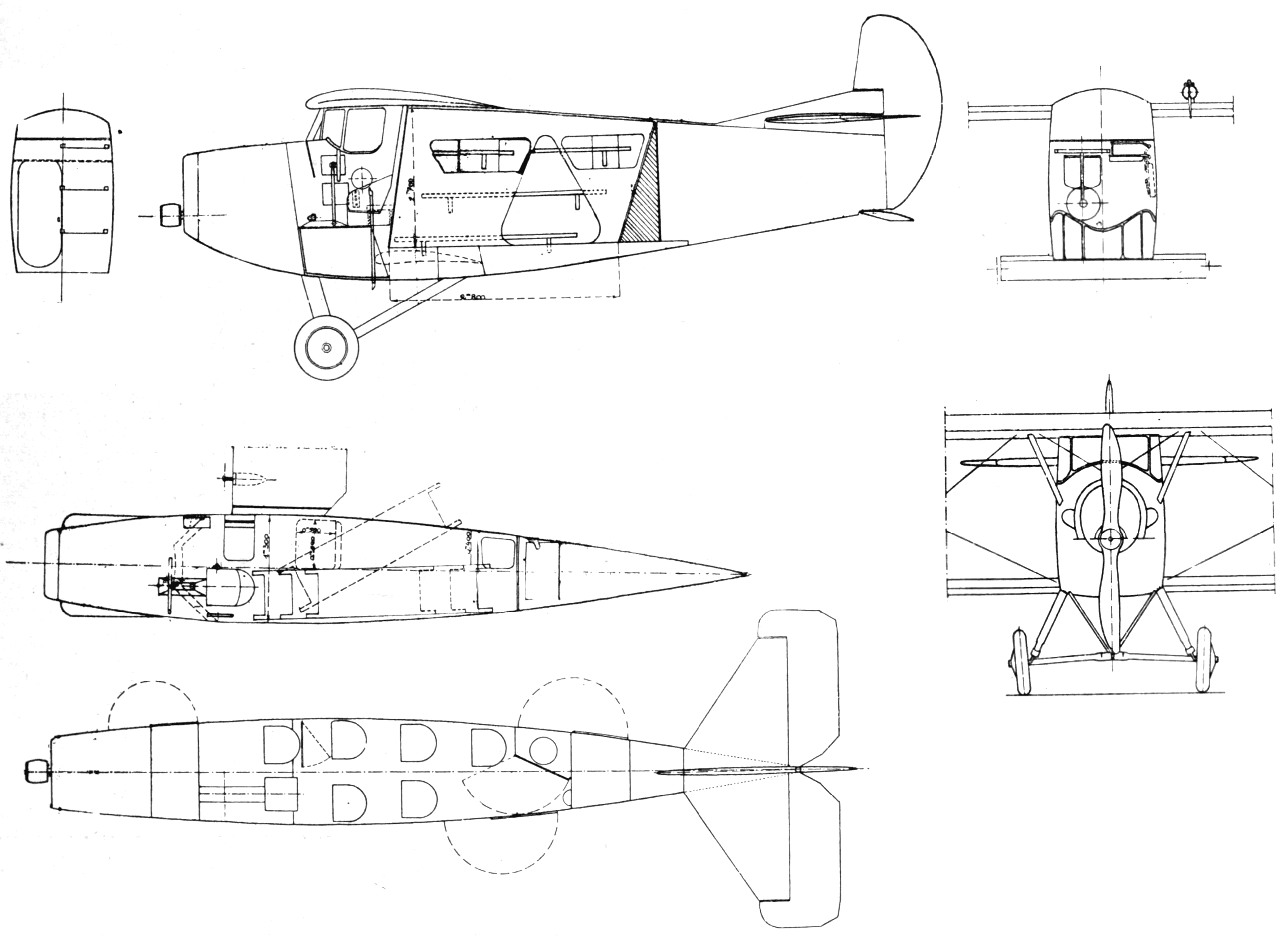 Potez 29 cabin layout drawing from L'Air May 15,1928